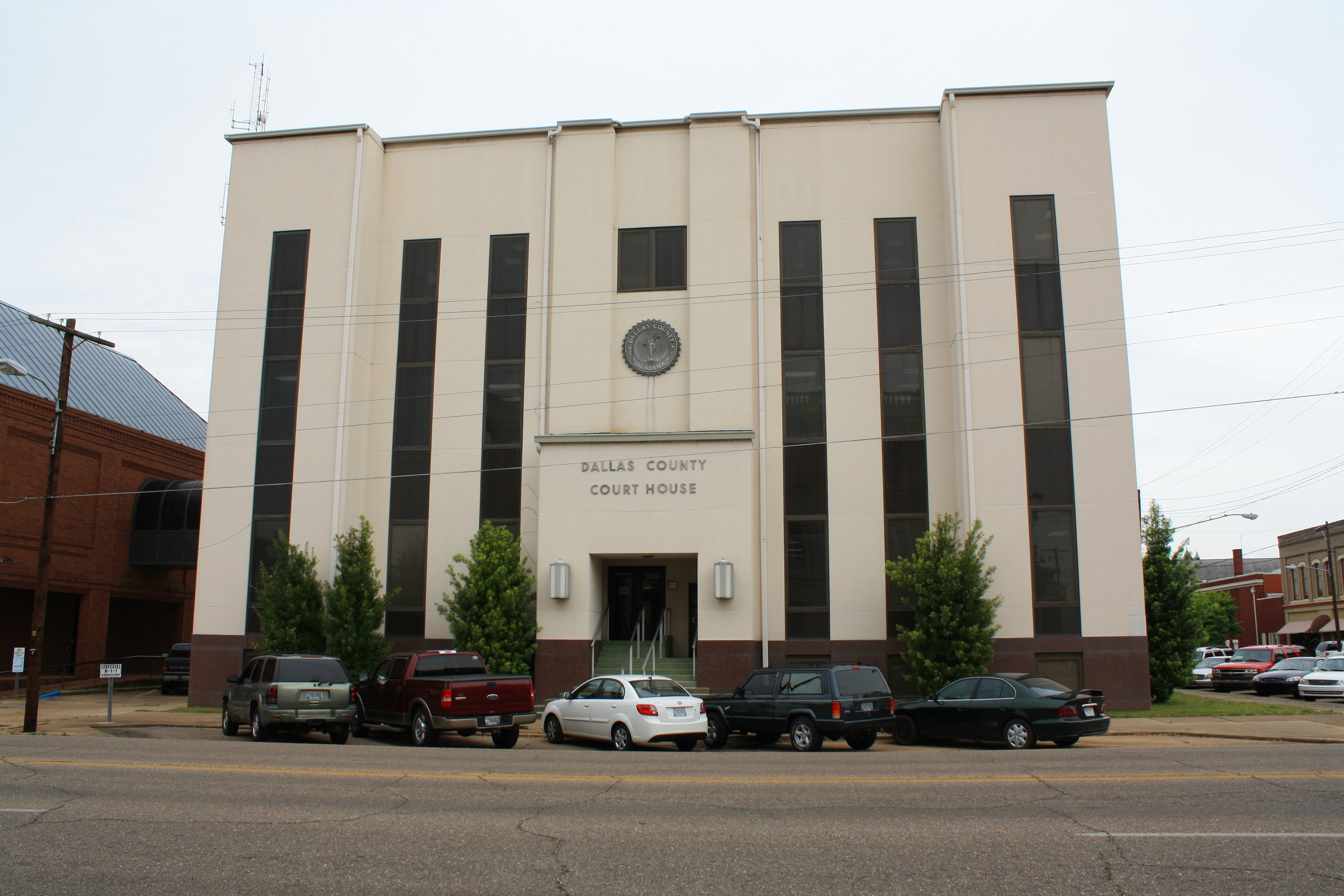 The Dallas County Courthouse in Selma, Alabama. Built in 1901, it was extensively modernized in 1960. It assumed its current appearance at that time.